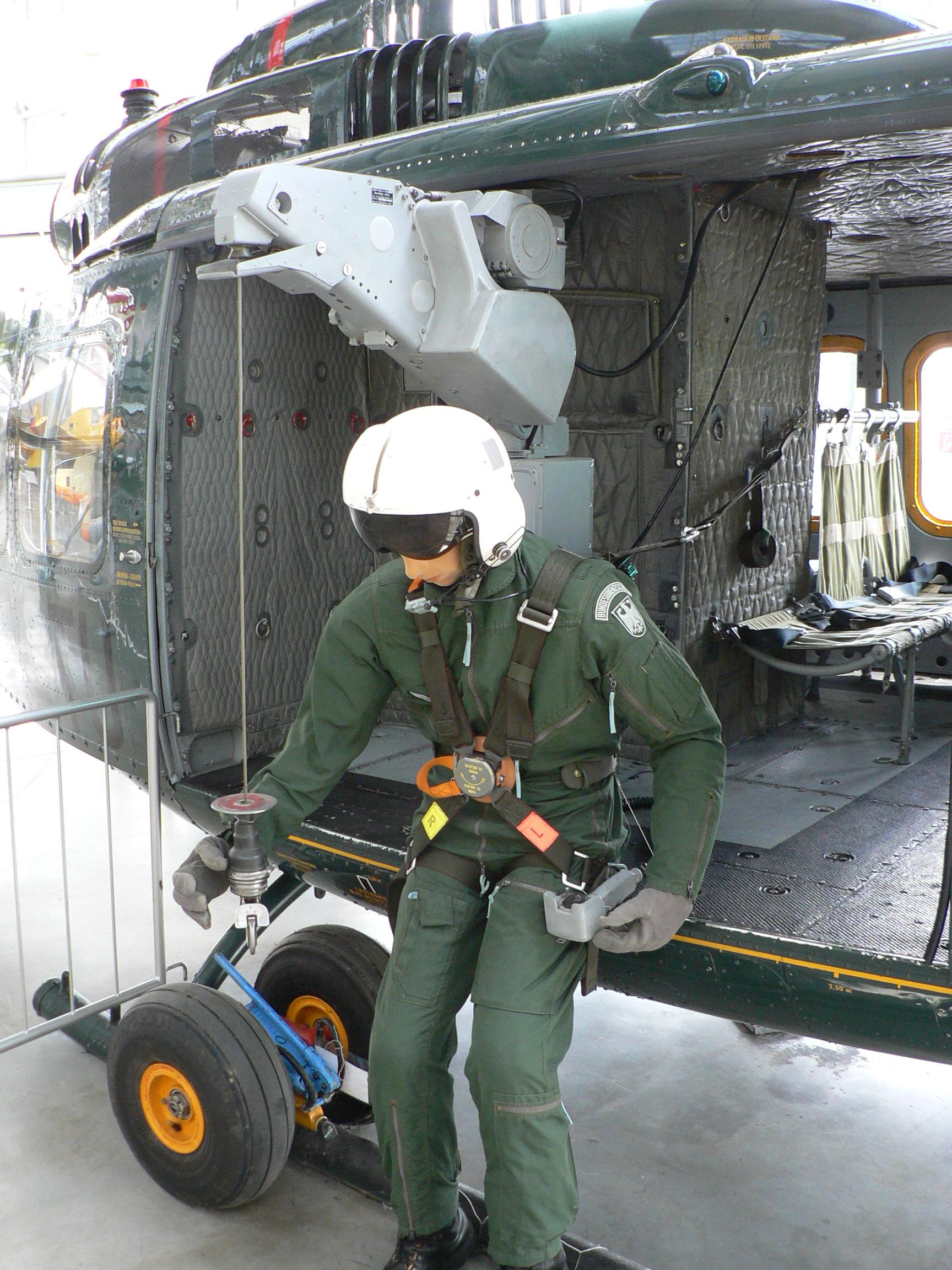 Photo by Jean-Patrick Donzey Helicopter winch Treuil hélicoptère Helicopter Bell 212 in Deutsches Museum Munich